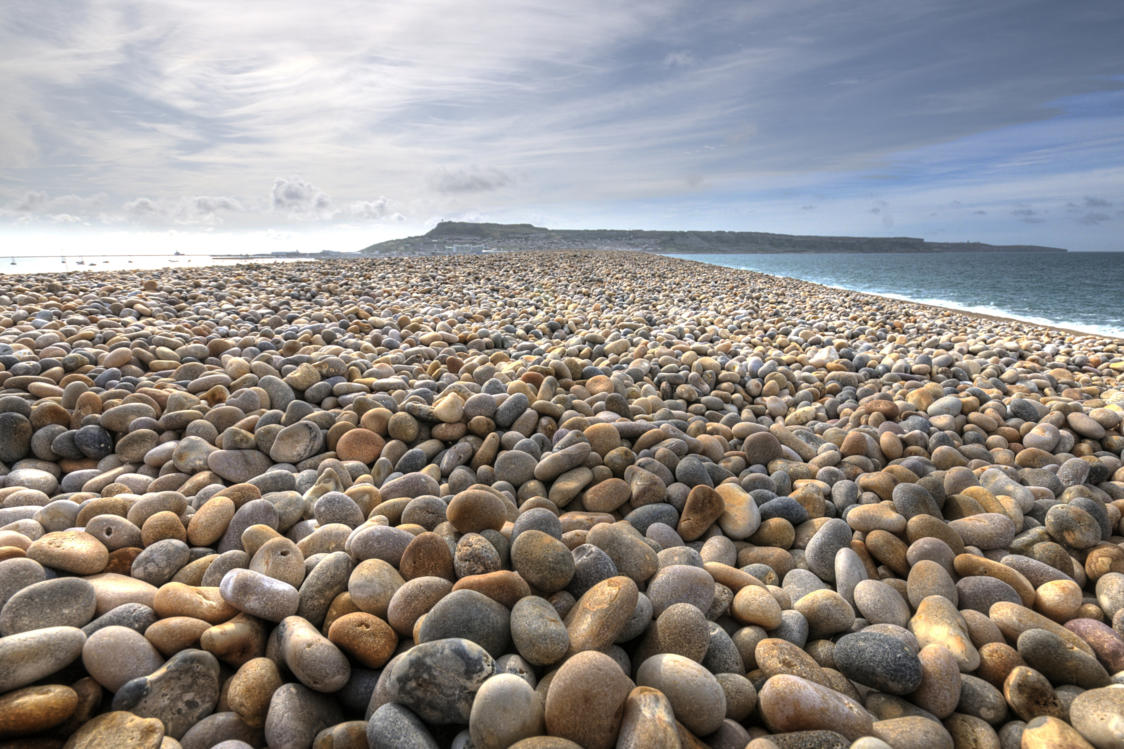 Tonemapped with Photomatix from a single RAW file. Chesil Beach, sometimes called Chesil Bank, in Dorset, southern England is one of three major shingle structures in Britain. Its toponym is derived from the Old English ceosel or cisel, meaning "gravel" or "shingle".